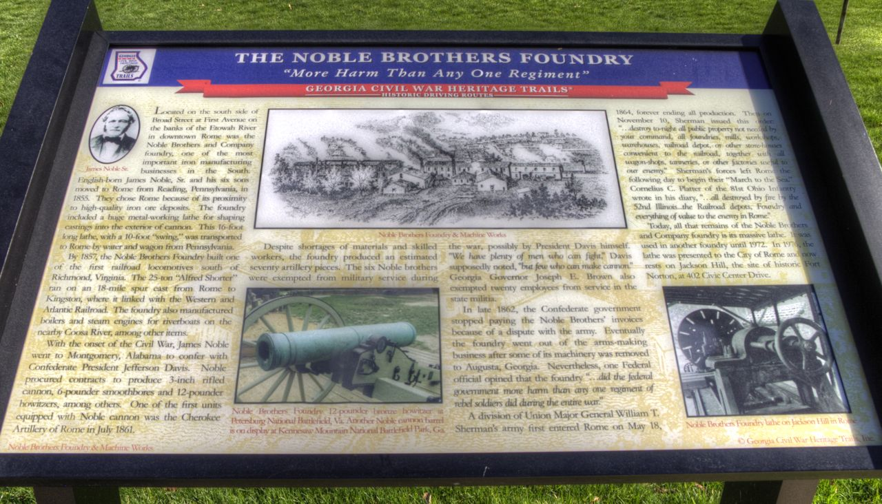 Local historical tract for Noble Foundry, Rome, Georgia